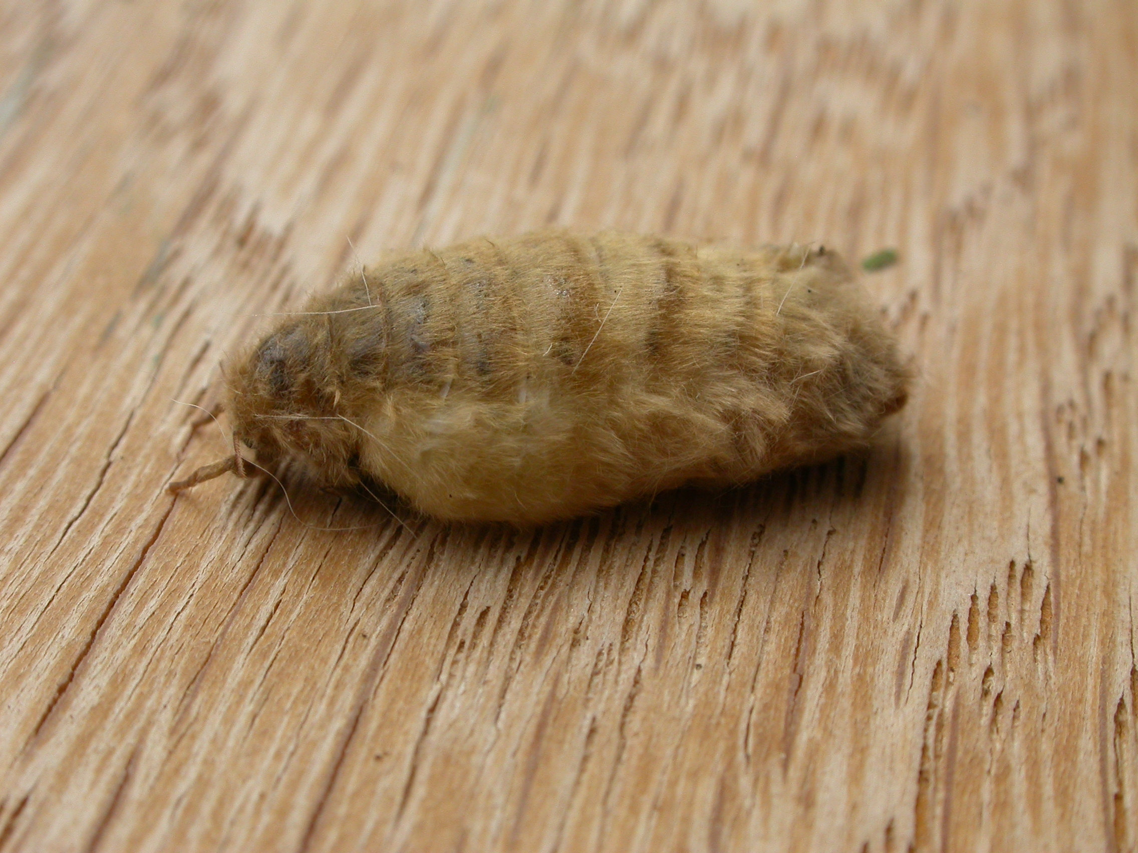 Teia anartoides Walker, 1855, female from larva found on Acacia on 28 December 2010 (pupated on 7 January 2011), Aranda, ACT, 14 January 2011